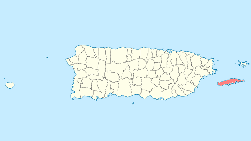 Municipal locator of Puerto Rico